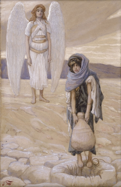 Hagar and the Angel in the Desert, c. 1896-1902, by James Jacques Joseph Tissot (French, 1836-1902), gouache on board, 9 7/16 x 6 in. (23.8 x 15.3 cm), at the Jewish Museum, New York